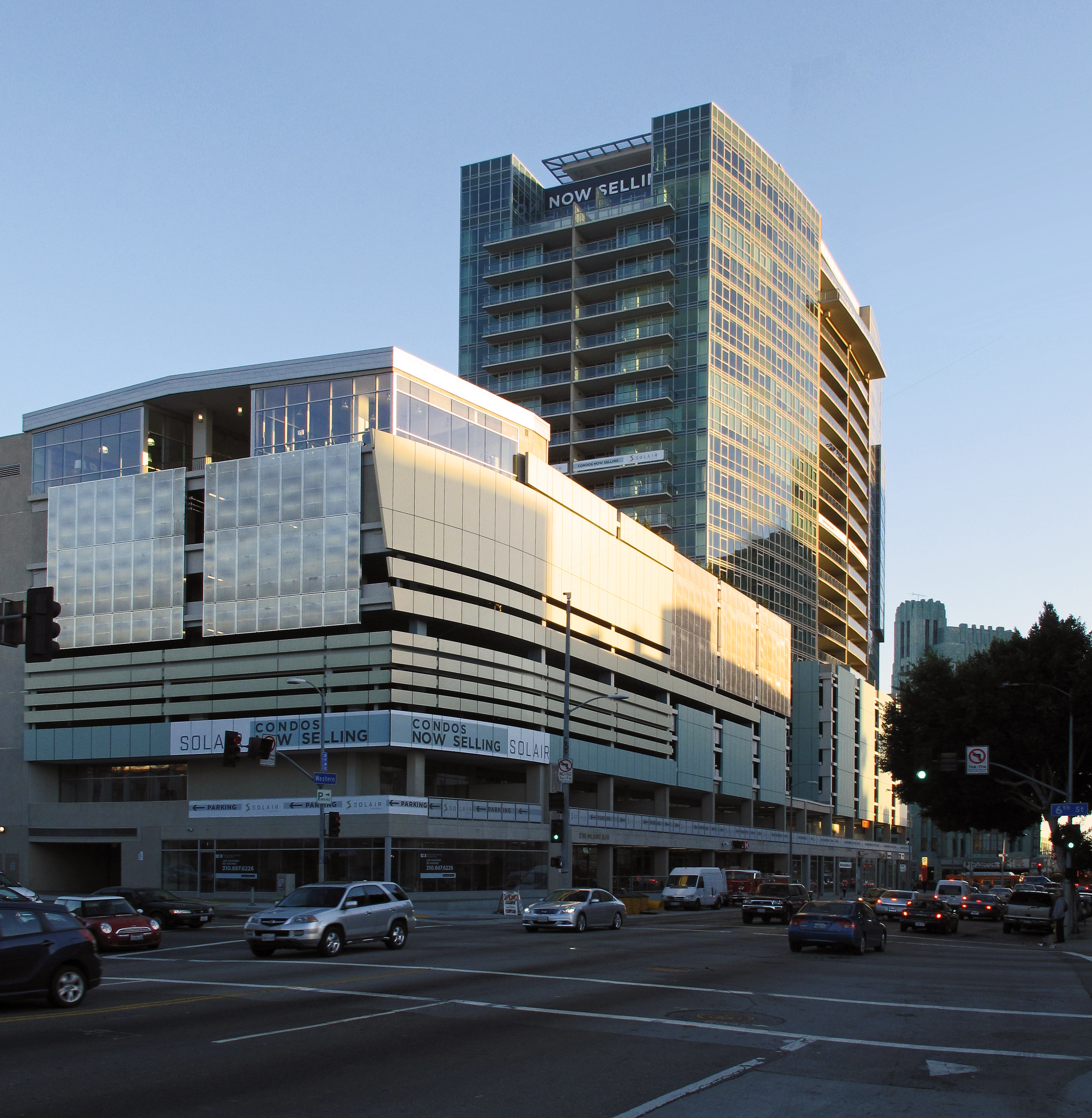 The Solair, a development of condominiums, a parking garage, and ground-level retail space, above the Los Angeles County Metro subway stop at Wilshire Boulevard and Western Avenues, Los Angeles. It is in the Wilshire Center neighborhood. This view is south from 6th Street & Western Avenue.